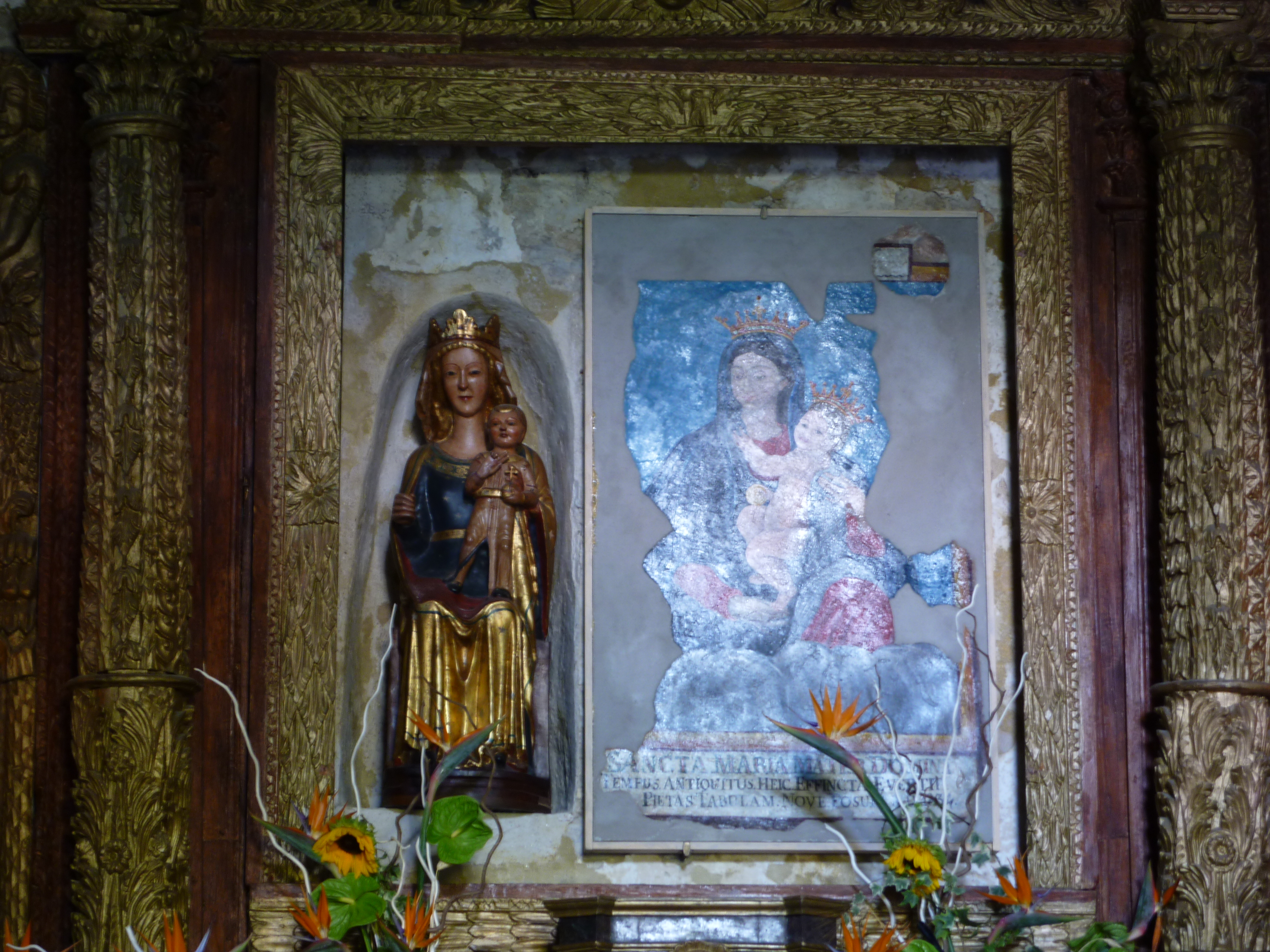 The wooden statue of the Virgin in the sanctuary of Santa Maria Mater Domini in Fraine, in the province of Chieti, Abruzzo